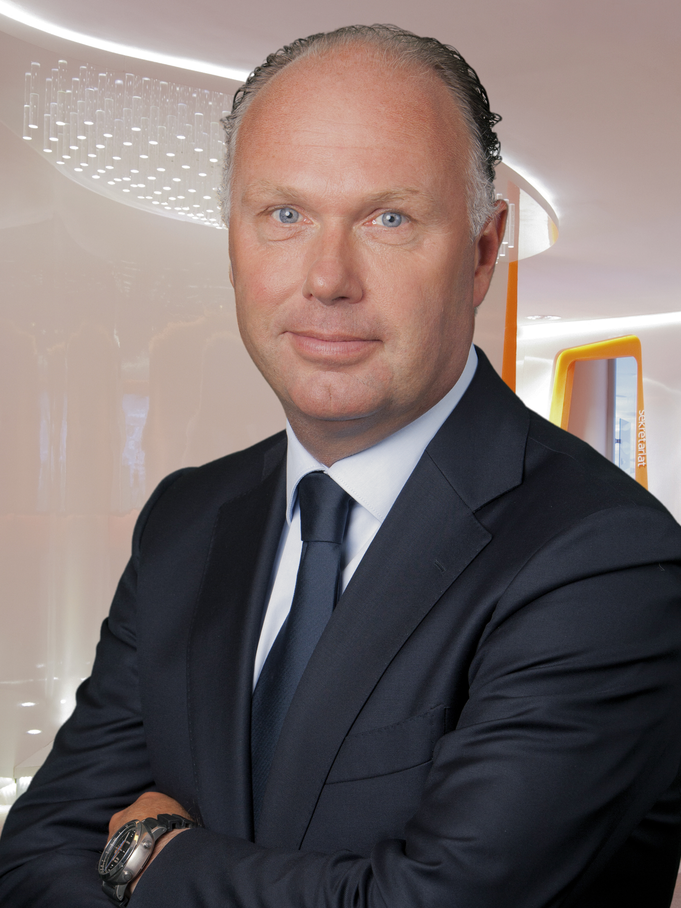 Nick Jue